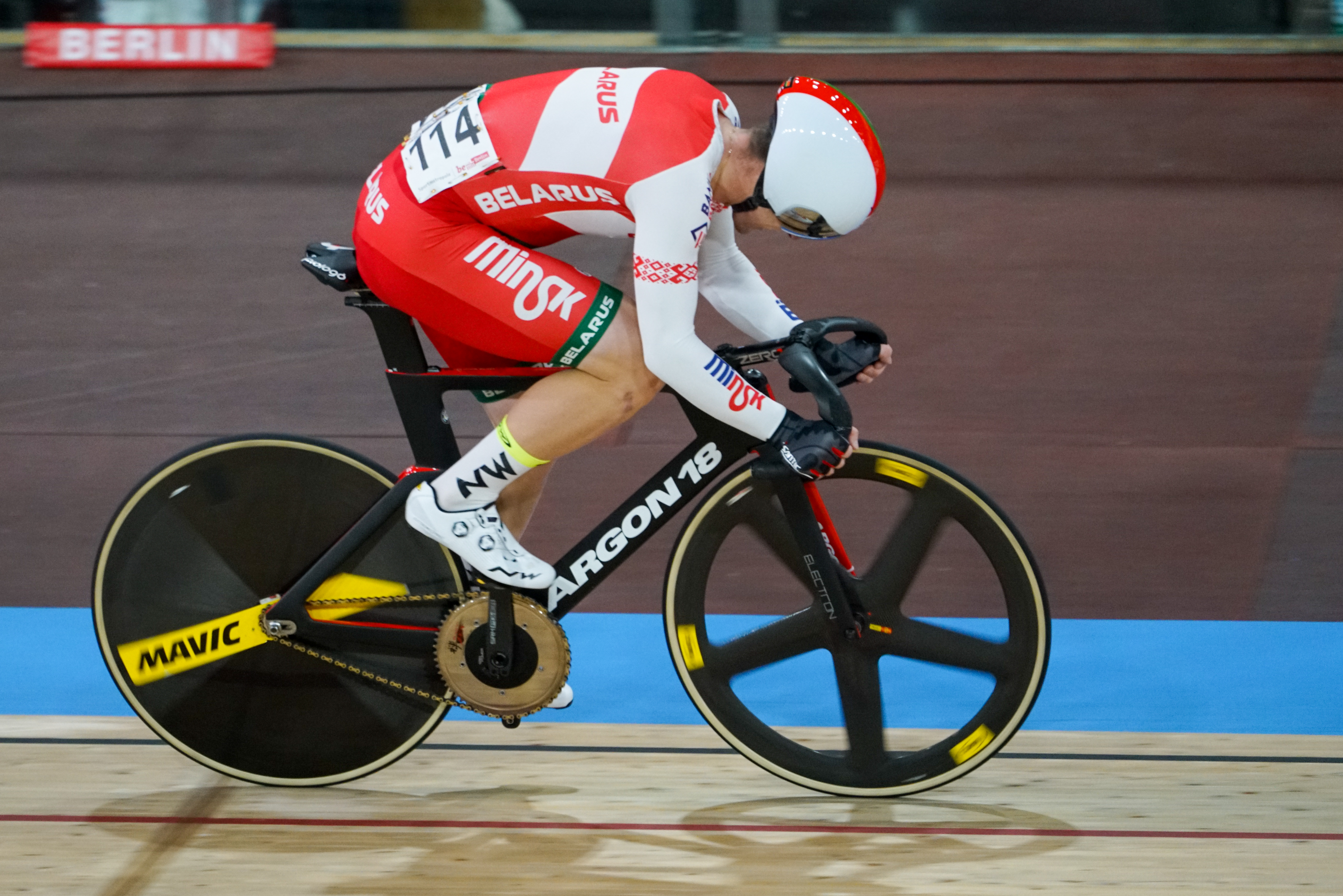 2020 UCI Track Cycling World Championships – Men's Scratch Race